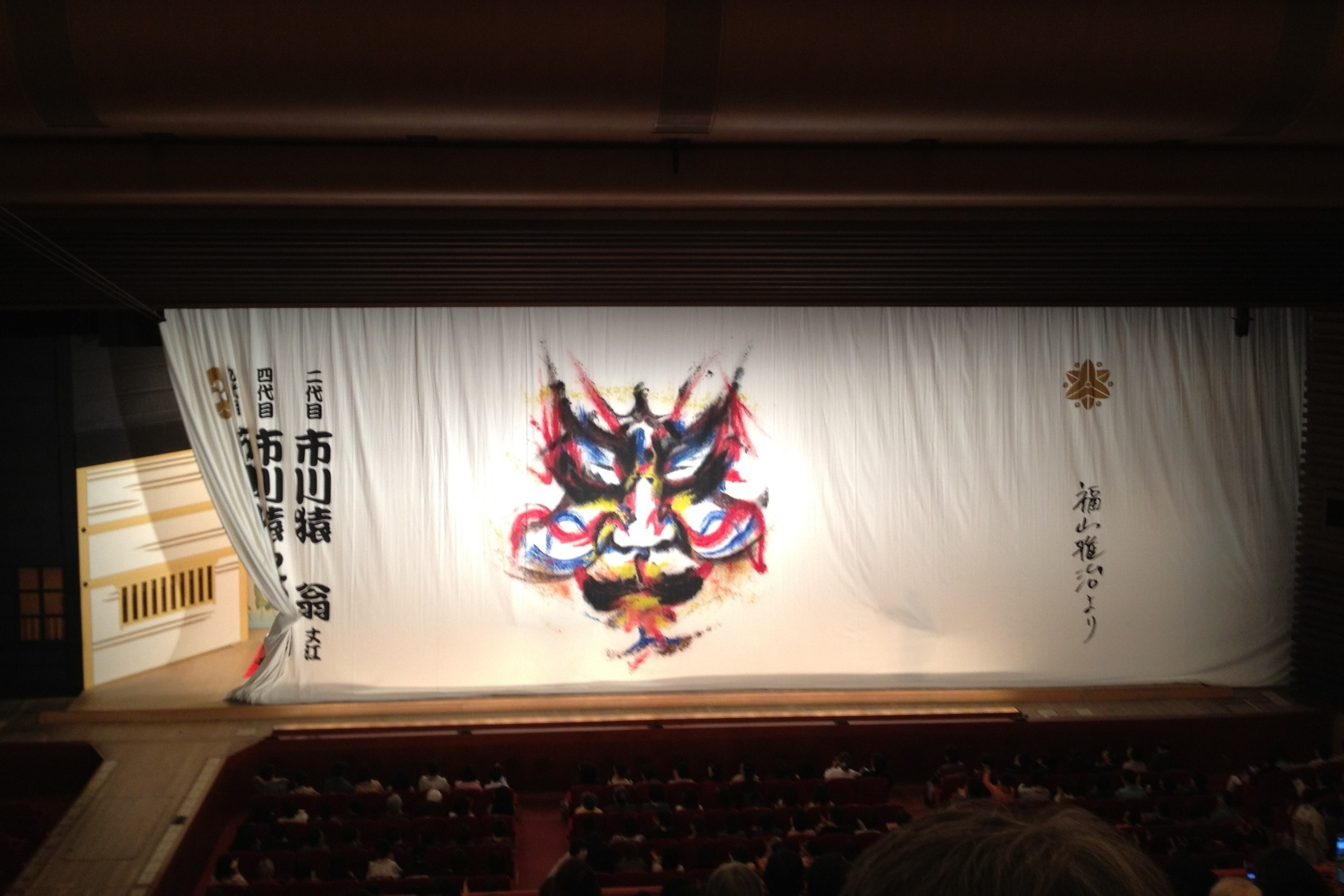 Curtain with an artful depiction of an oshiguma face of a kabuki male character, at the Misono-za theatre in Nagoya. This was the last kabuki performance week before renovation work.